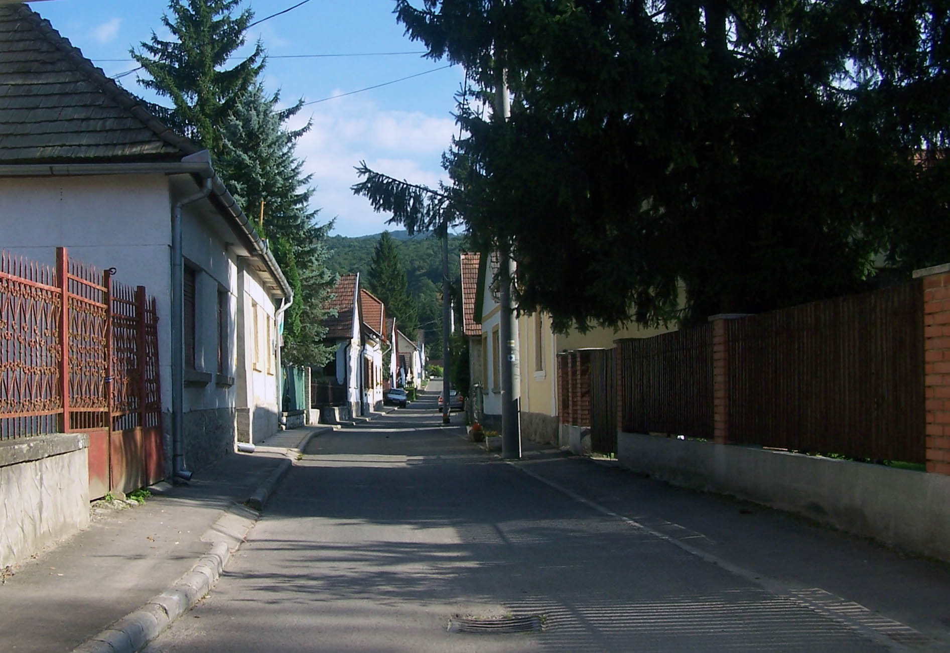 A zebegényi Szőnyi út